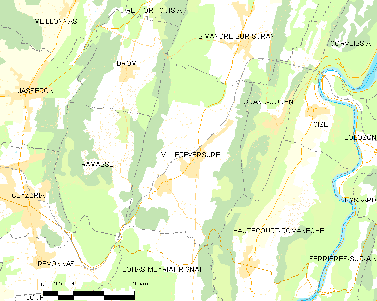 Map of French commune: Villereversure Map commune FR insee code 01447.png